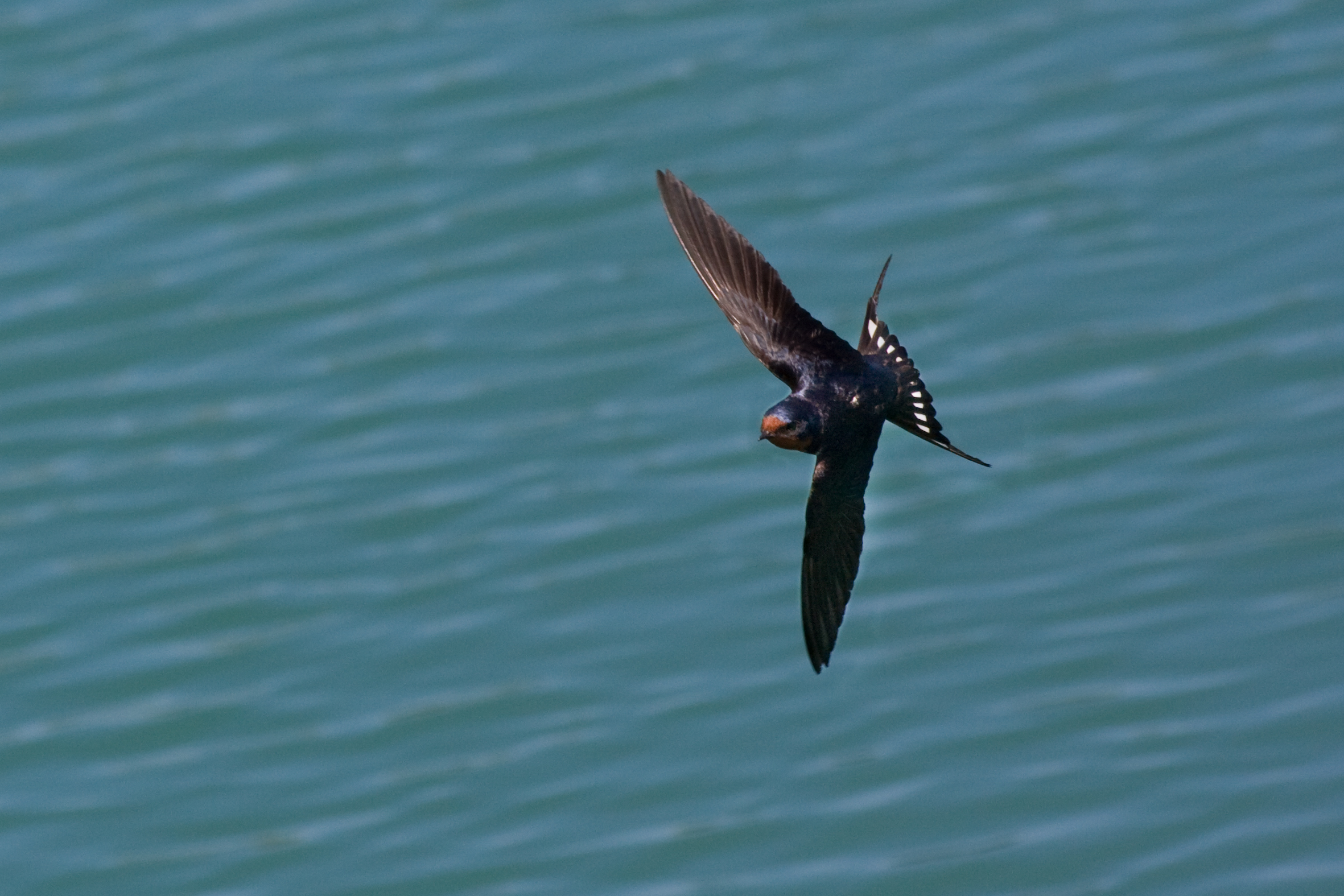 A Barn Swallow flying over a lake in Chicago, Illinois, USA. The upper side of the bird is shown.